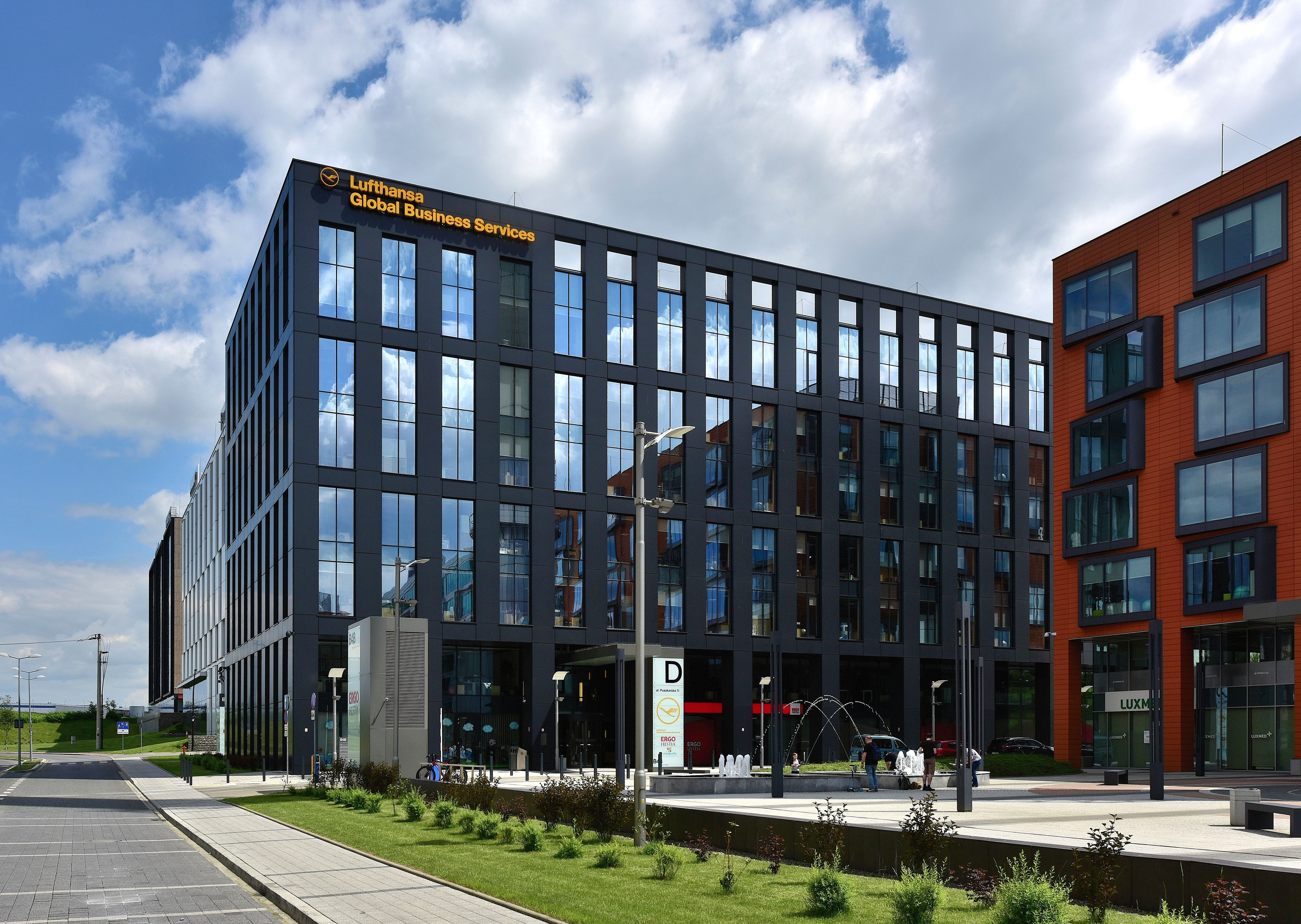 Seat of Lufthansa Global Business Services in Bonarka for Business office park in Kraków